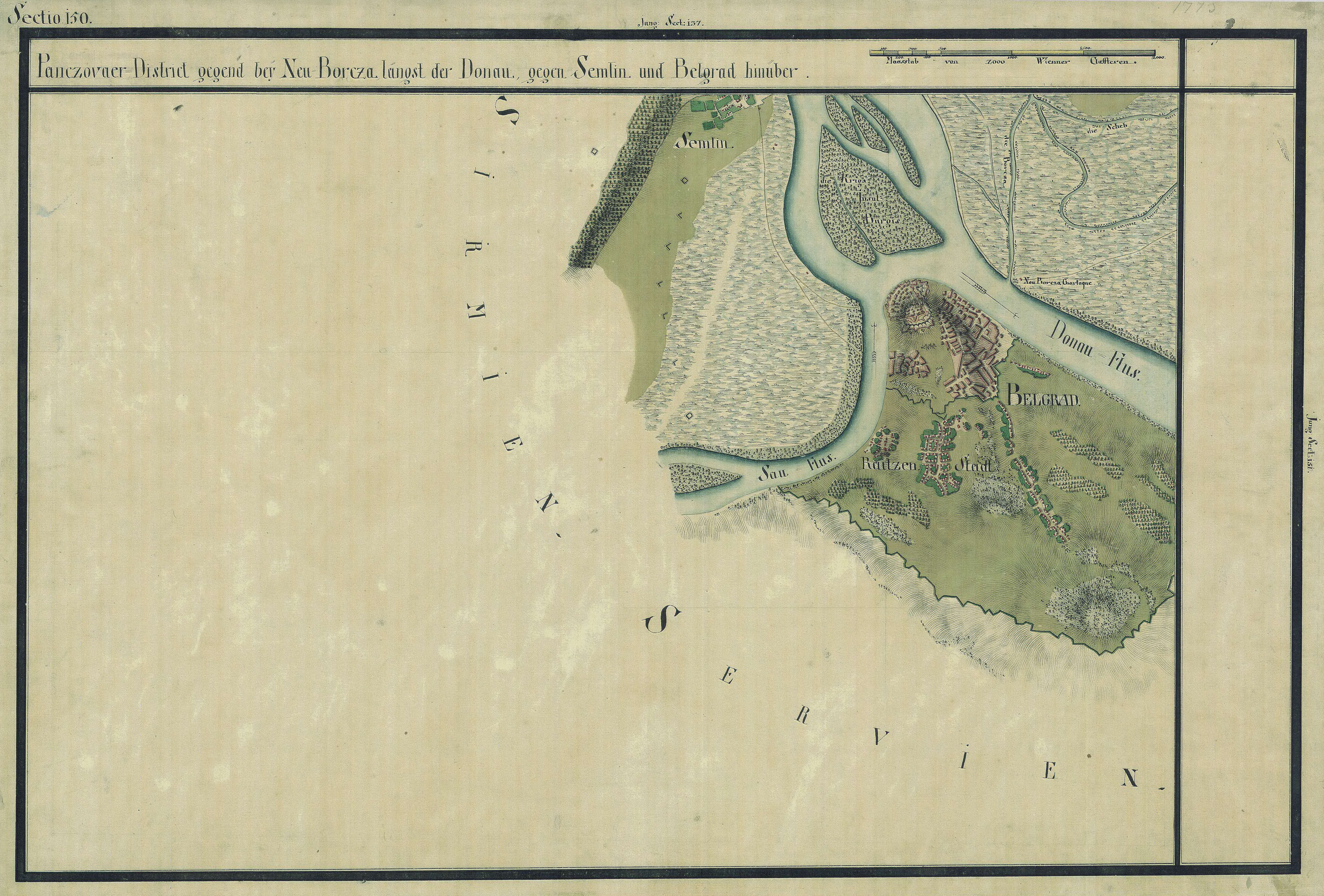 The Banat region in the cadastral maps: Josephinische Landesaufnahme, 1769-72. Josephinische Landaufnahme pg150